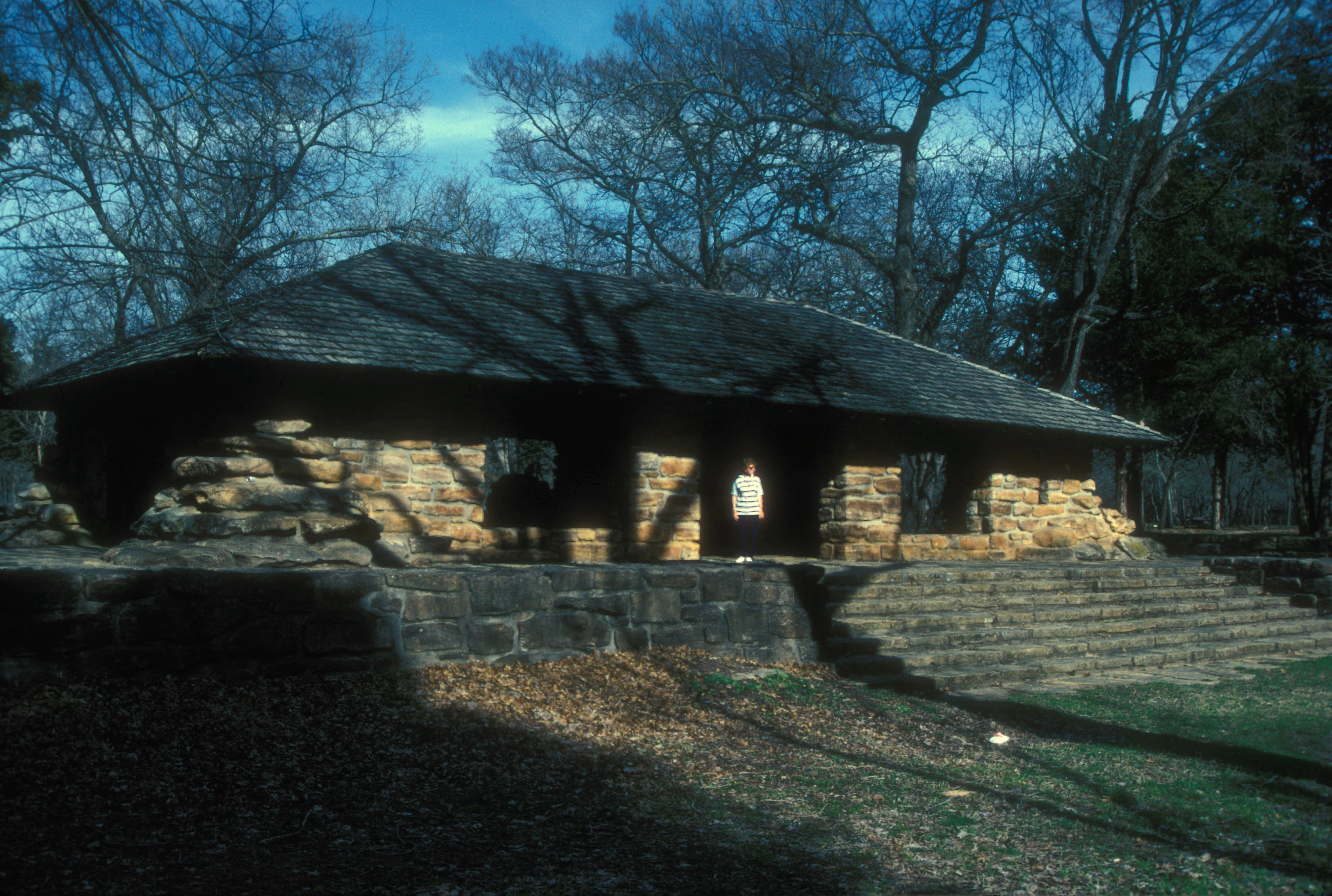 PLATT NAT'L PARK IS NOW CHICKASAW NAT'L RECREATIONAL AREA. THE BUILDINGS IN THE DISTRICT FREQUENTLY RELATE TO THE SPRINGS FOR WHICH THE PARK IS WELL KNOWN. THIS PICTURE SHOWS THE BROMIDE PAVILION